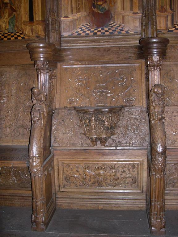 Misericord from Saint Denis cathedral (France)